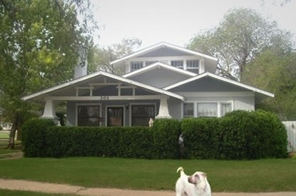 Historic W.C. Baker House — in Altus, Jackson County, Oklahoma. On the National Register of Historic Places in Jackson County, Oklahoma.